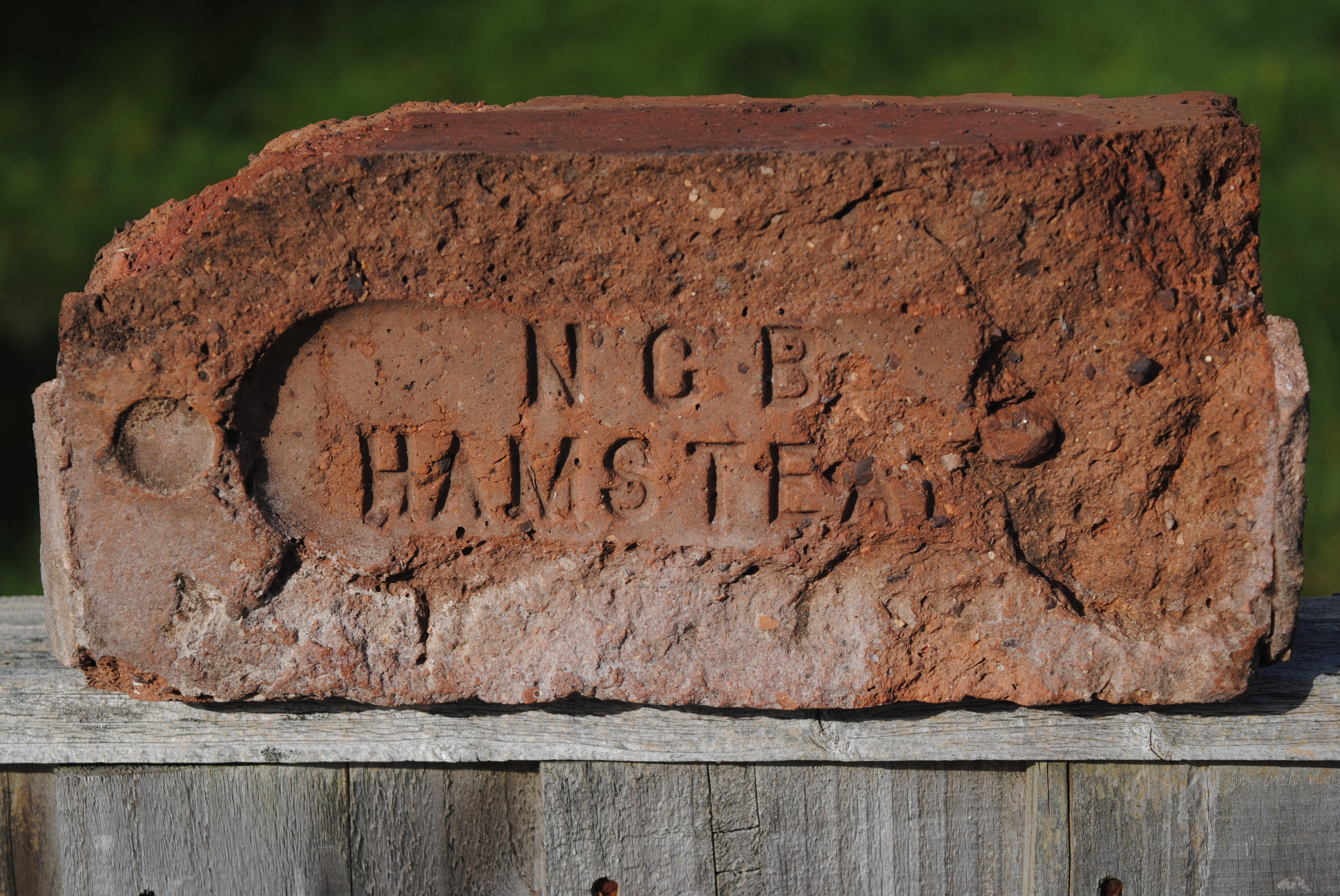 A brick made at the NCB's Hamstead Colliery, found in the foundations of a garden wall, at a house built in 1948.